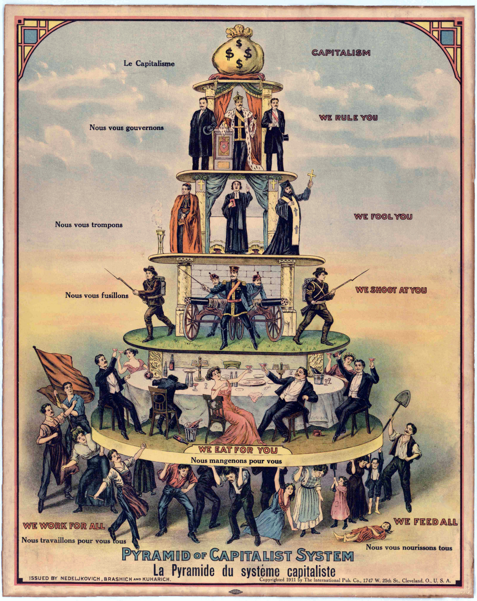 IWW poster printed 1911